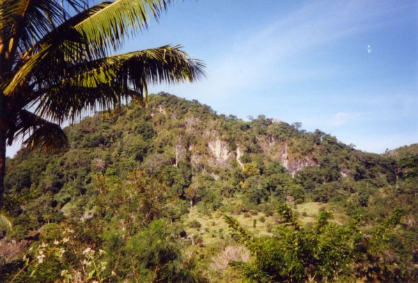 Close to Tutuala/Timor-Leste. Today part of Nino Konis Santana National park. At the picture a Fatu, a cliff, typical for Timor.